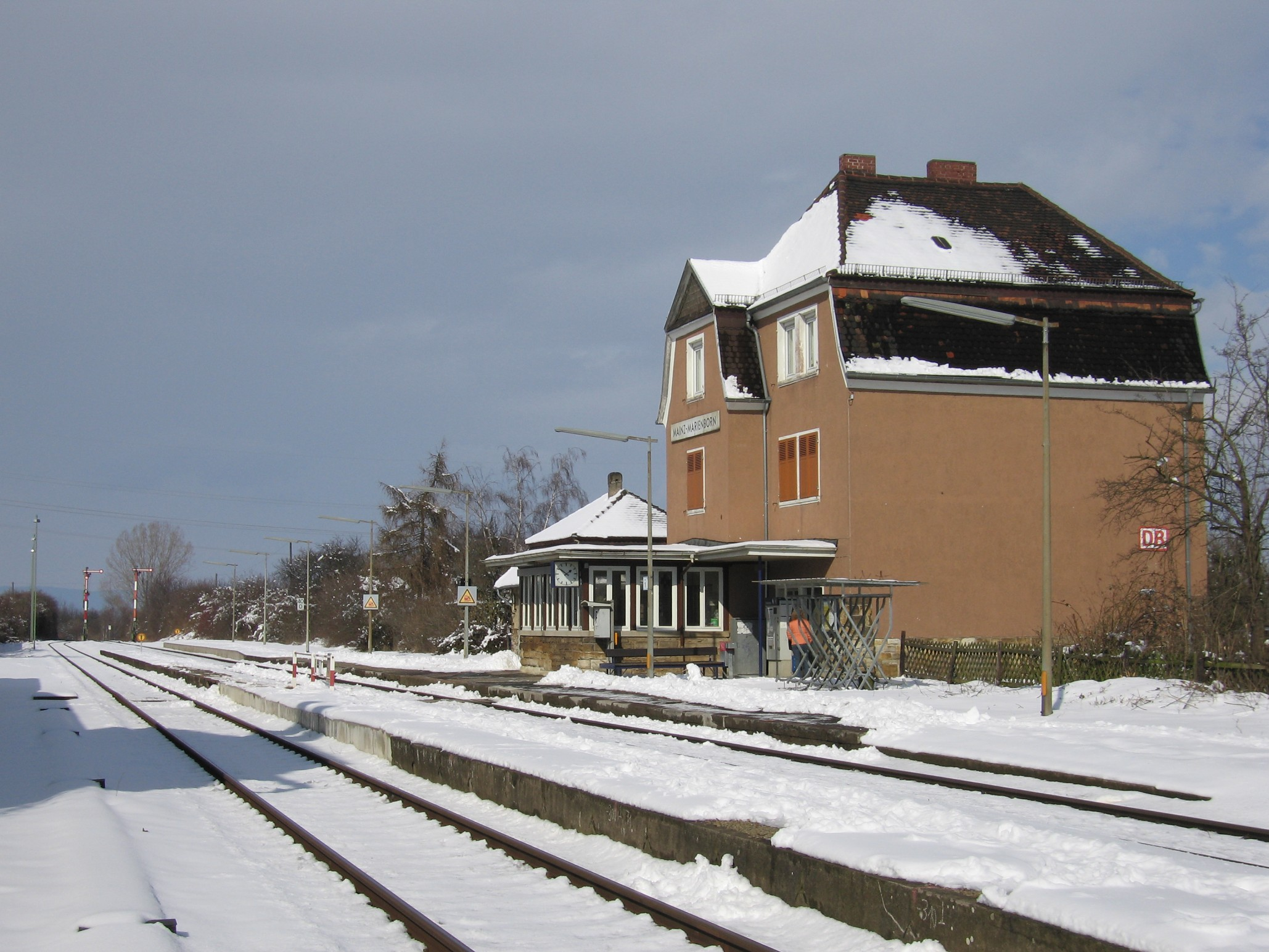 Train stop Mainz-Marienborn, Germany Picture taken by Christian Koehn (fragwürdig), March 5, 2006